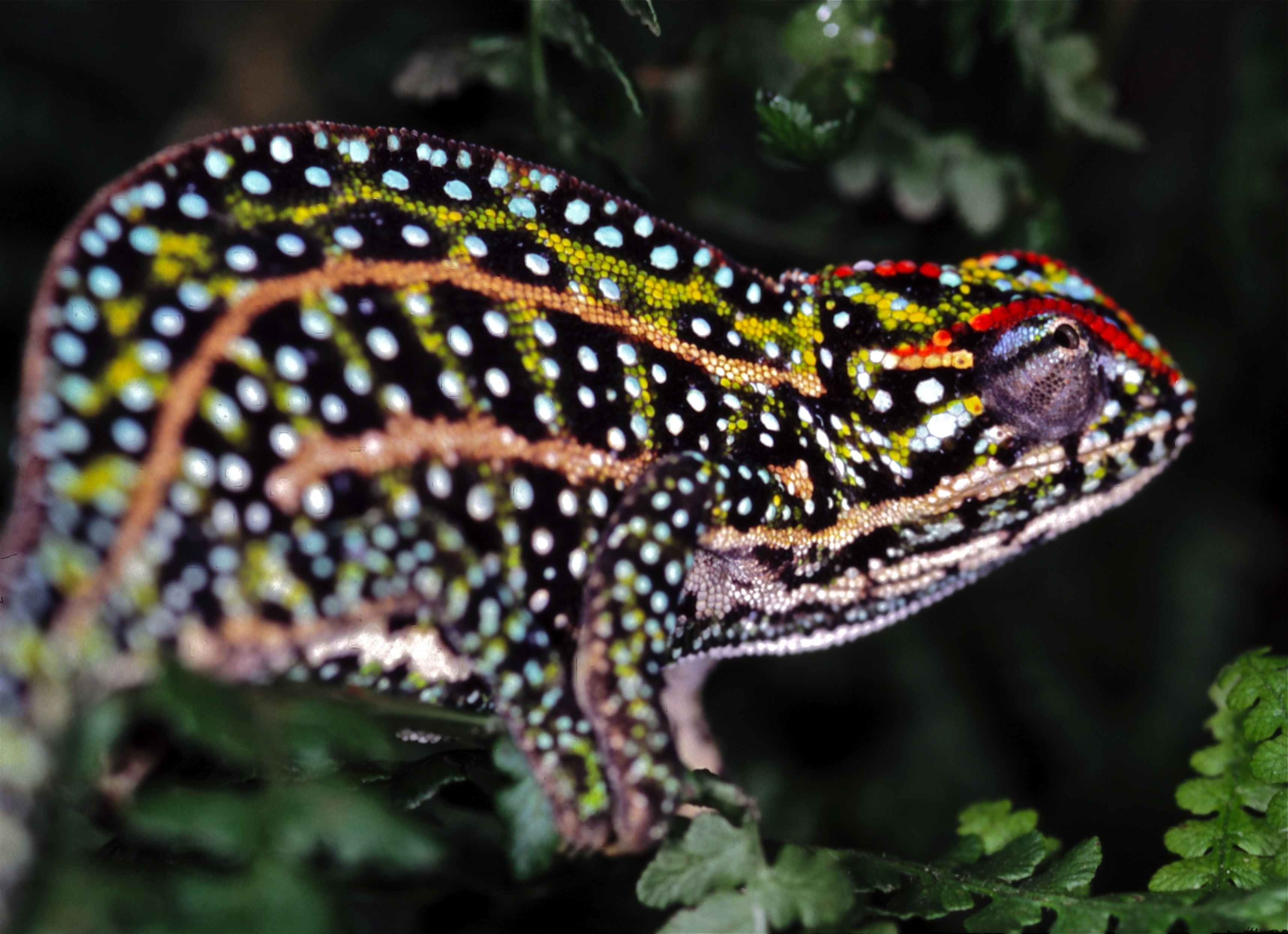 Réserve Peyrieras, Moramanga, MADAGASCAR Scanned Slide from 2004